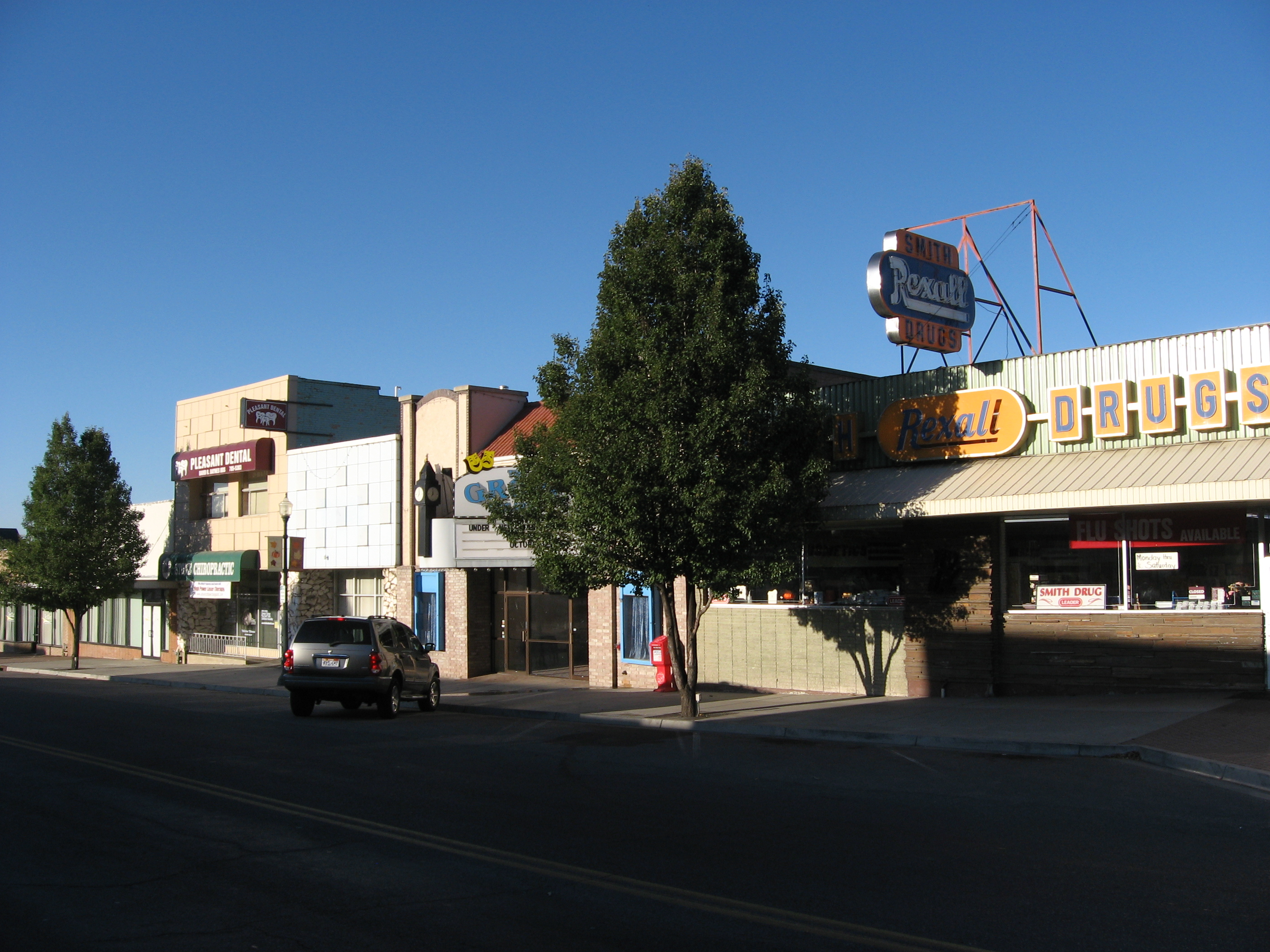 Commercial buildings located on Main Street between Center and 100 South in Pleasant Grove, Utah. The buildings are part of the Pleasant Grove Historic District, which is listed on the National Register of Historic Places.